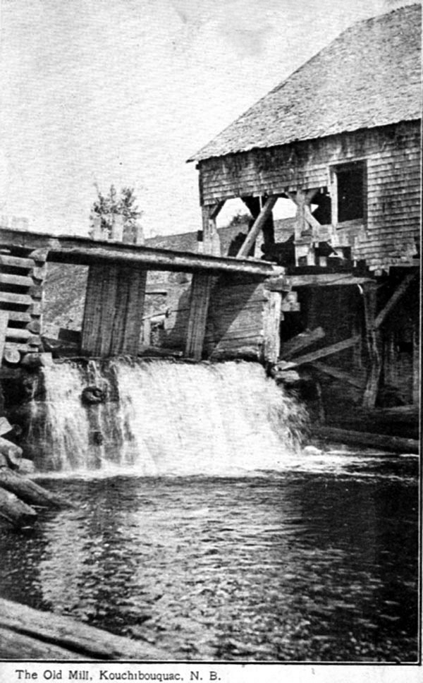 Postcard of the old mill at Kouchibouguac, 1911. Provincial Archives of New Brunswick number P608-NB3-048.